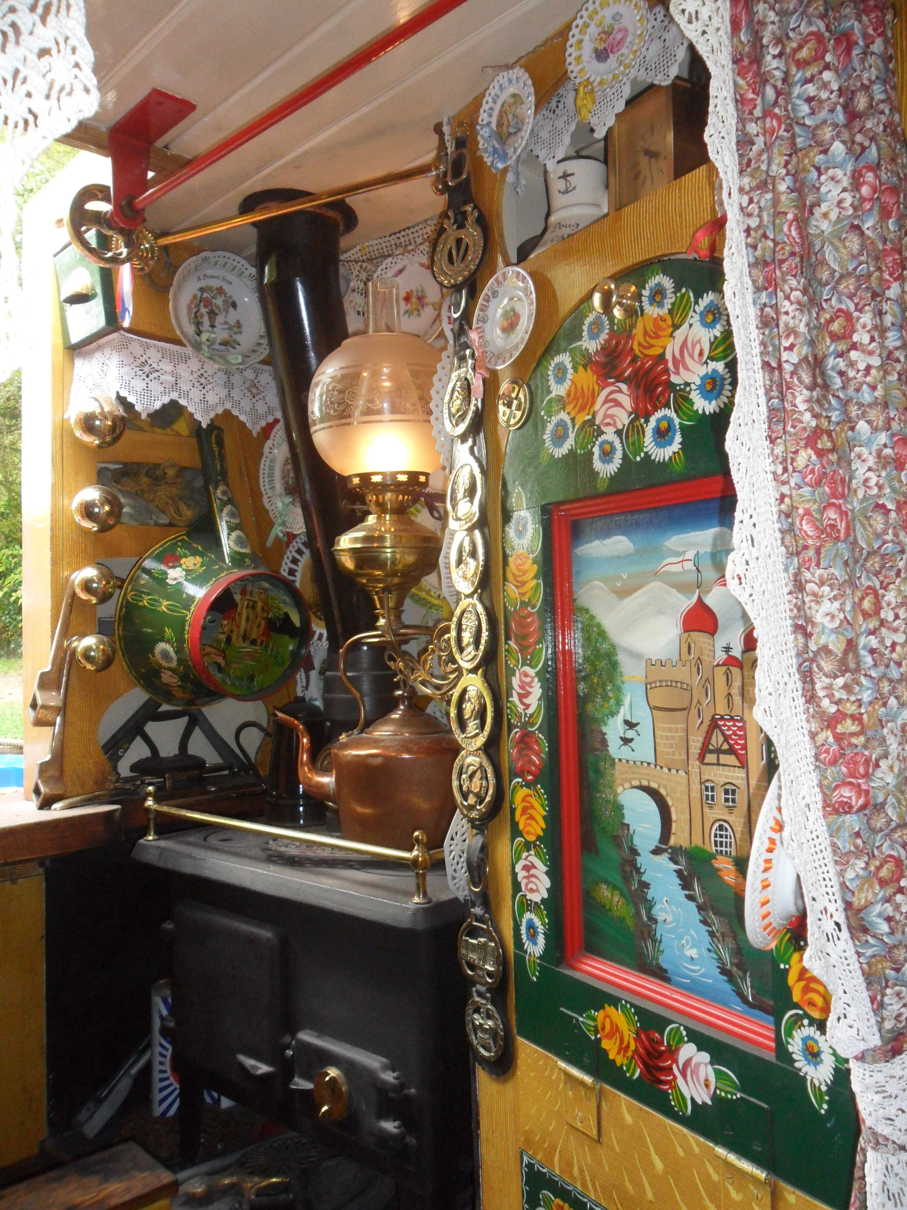 Hadar's traditional boatman's cabin interrior